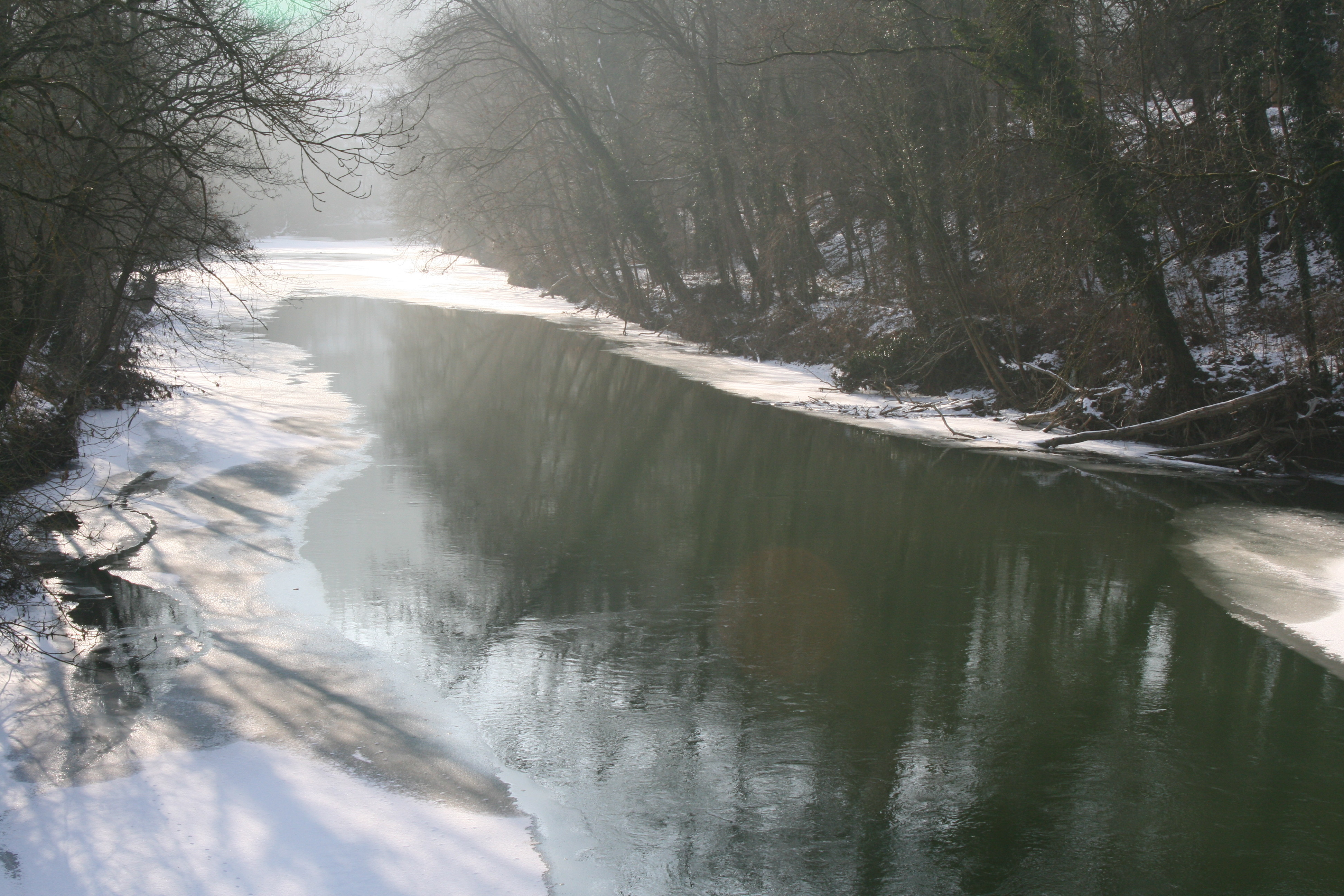 The partially frozen river Jagst near Assumstadt castle in Möckmühl-Züttlingen